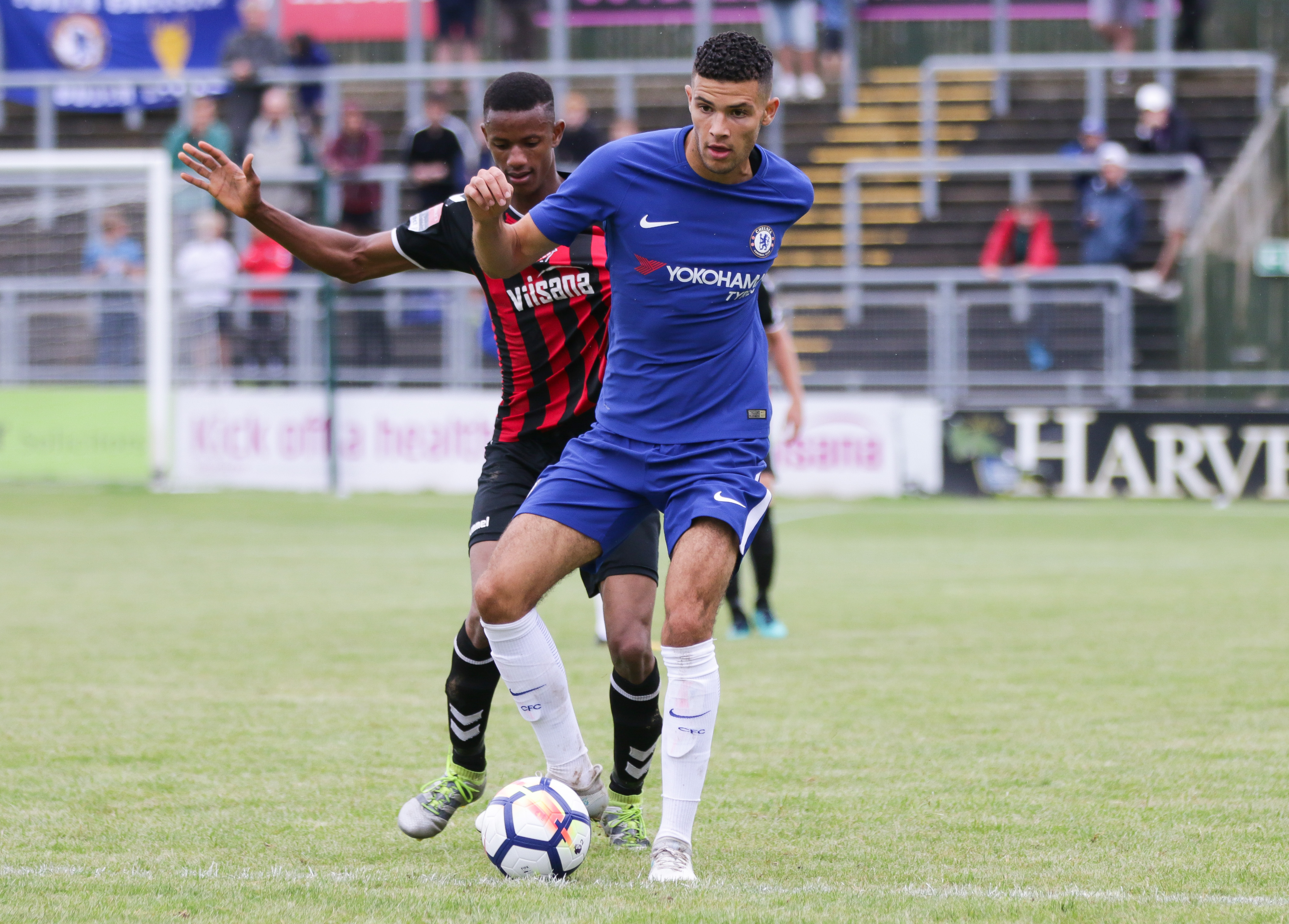 Lewes 0 Chelsea DS 1 Pre Season 22 07 2017-799.jpg Isaac Christie-Davies (?)